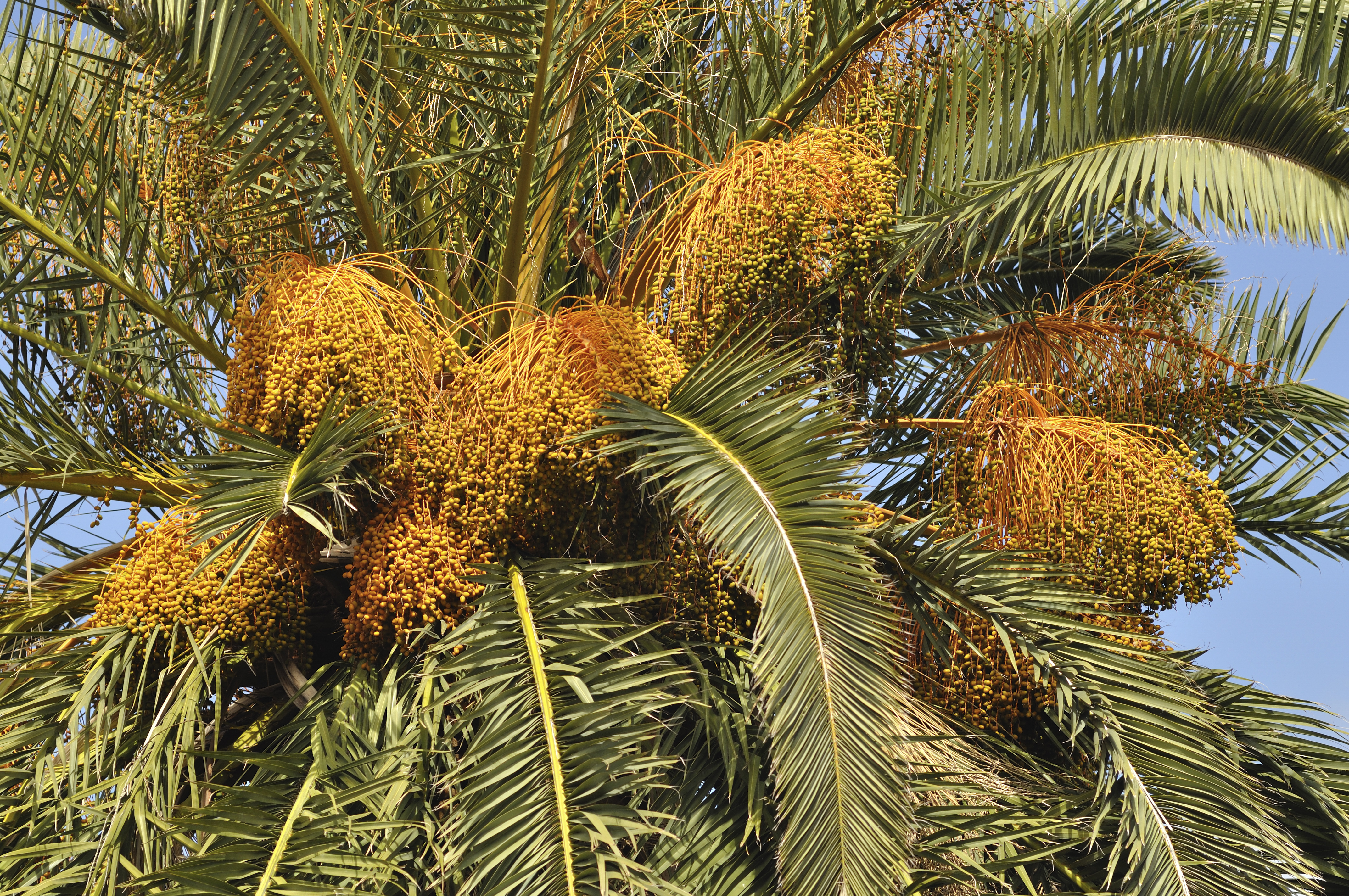 Infructescence of a Canary Island Date Palm (Phoenix canariensis) in Puerto de la Cruz, Tenerife, Spain.